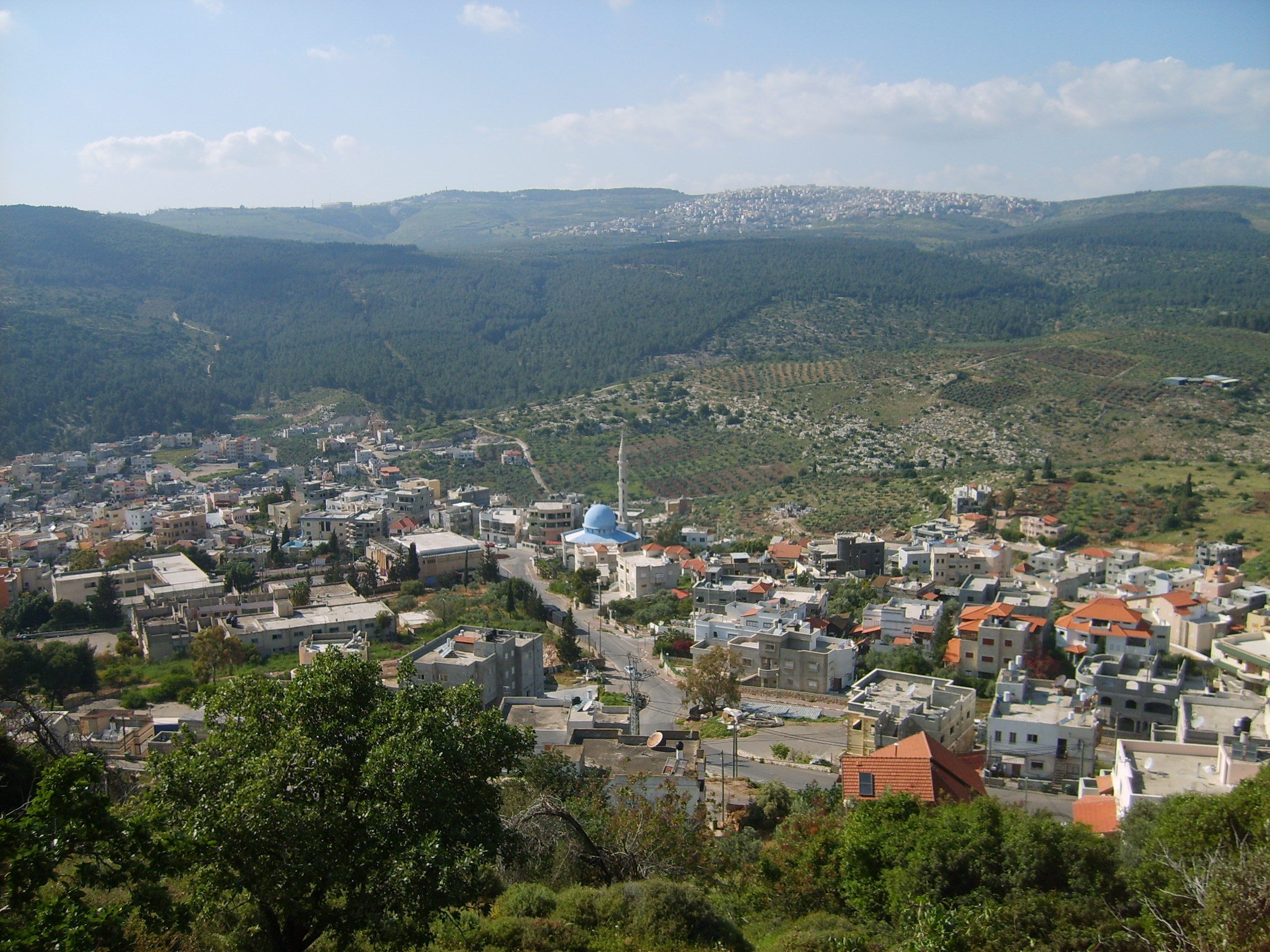 View at the Arab village of Daburiyya (seen from the slopes of Mount Tabor).